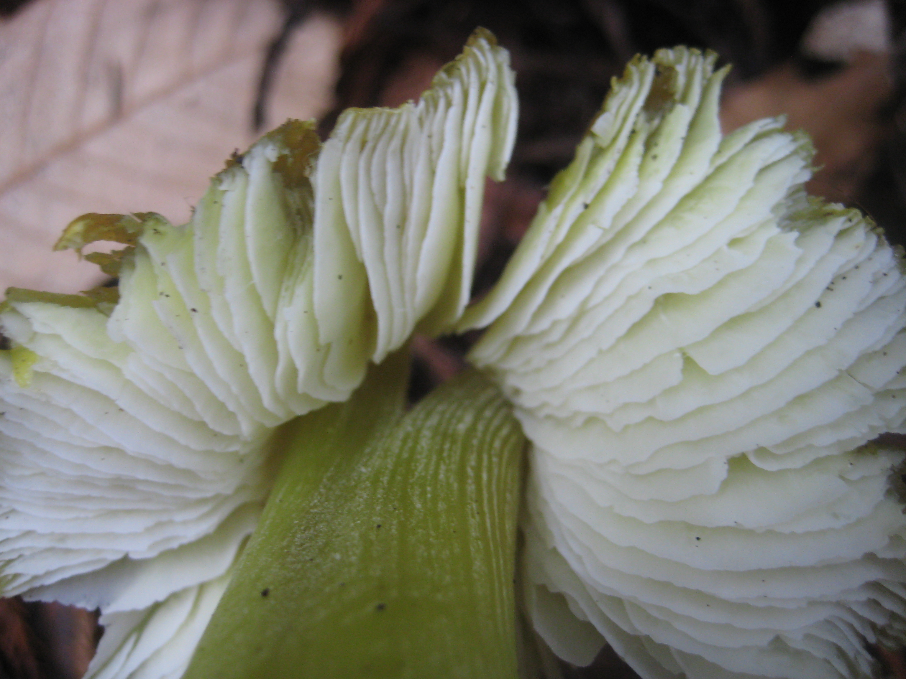 Closeup of the stem apex and gills of the mushroom Hygrocybe virescens (Hesler & A.H.Sm.) Montoya & Bandala. Specimen photographed at the University of California Santa Cruz, Santa Cruz Co., California, USA. See Mushroom Observer page for further collection details.